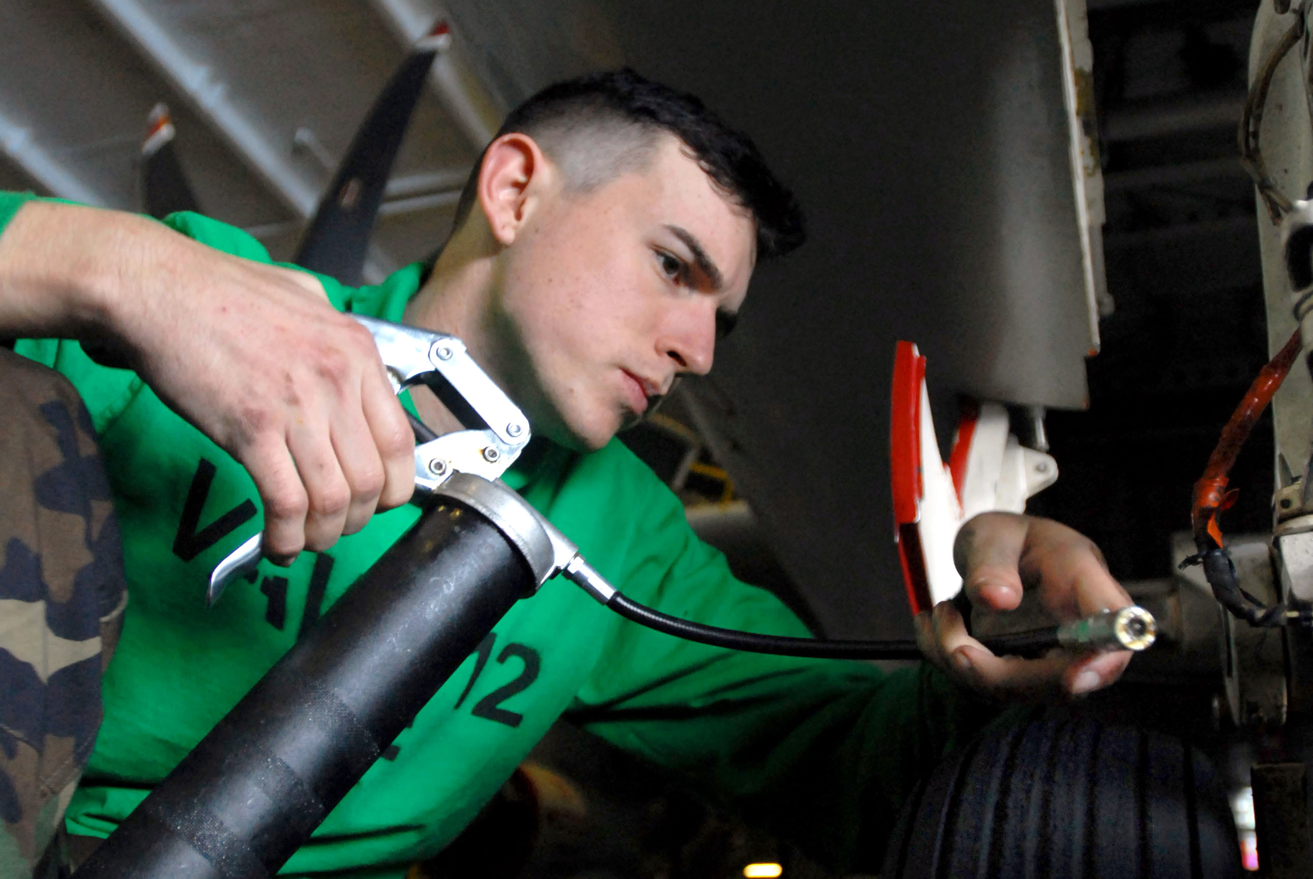 Pacific Ocean (Jan. 23, 2007)- Aviation Structural Mechanic Airman Sean Adams uses a grease gun to perform maintenance on an E-2C Hawkeye assigned to the "Golden Hawks" of Carrier Airborne Early Warning Squadron One One Two (VAW-112) in the hangar bay aboard the Nimitz-class aircraft carrier USS John C. Stennis (CVN 74). Stennis is conducting carrier qualifications with embarked Carrier Air Wing Nine (CVW-9) off the coast of Southern California prior to transiting west to bolster security in U.S. Central Command area of operations. U.S. Navy photo by Mass Communication Specialist Seaman Apprentice Kyle Steckler (RELEASED)